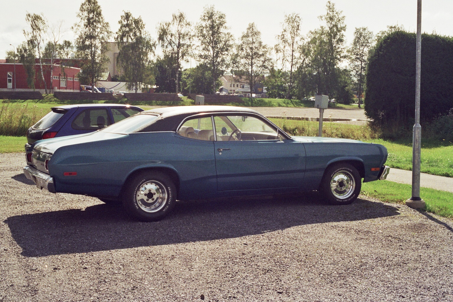 A Plymouth Duster from the 1970s in Huittinen, Finland.